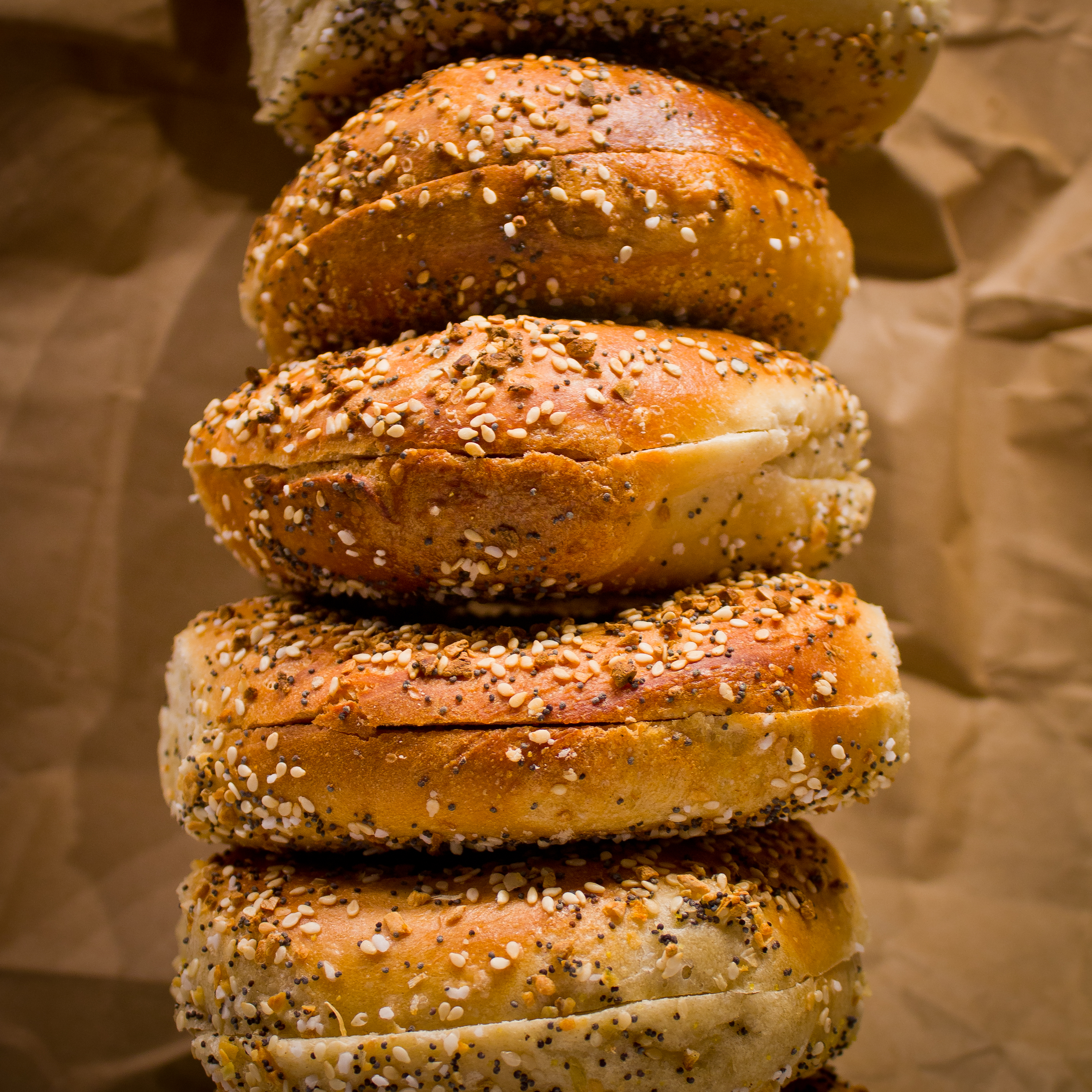 The everything bagel is one of the most popular bagel flavors in the history of bagels